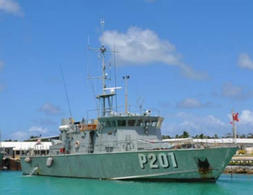 VOEA Neiafu (P201) Original caption: “A pair of Tongan Pacific-class patrol boats, VOEA Savea P203 and VOEA Neiafu P201 float in the harbor in Nuku’alofa, Tonga. ”